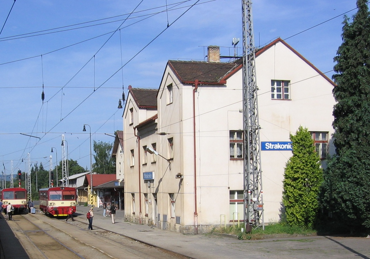 Train station in Strakonice (2008)